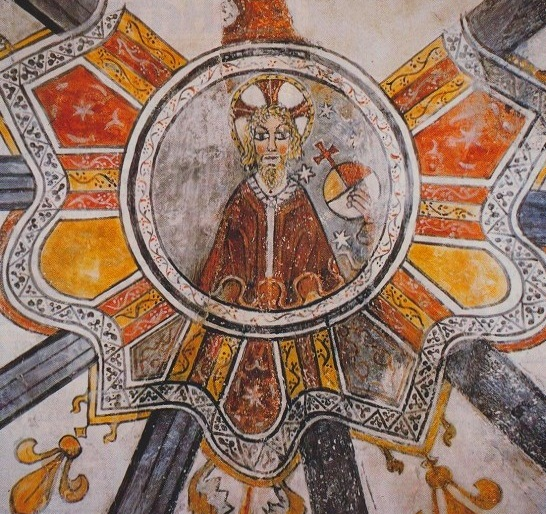 Charraix frescoes